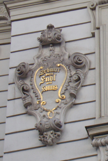 Vienna Weihburg-Gasse 18-20 Sign of Endl & Honus 1887